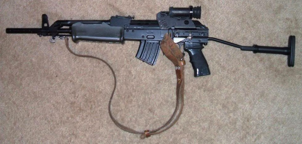 The left side of an AMP-69